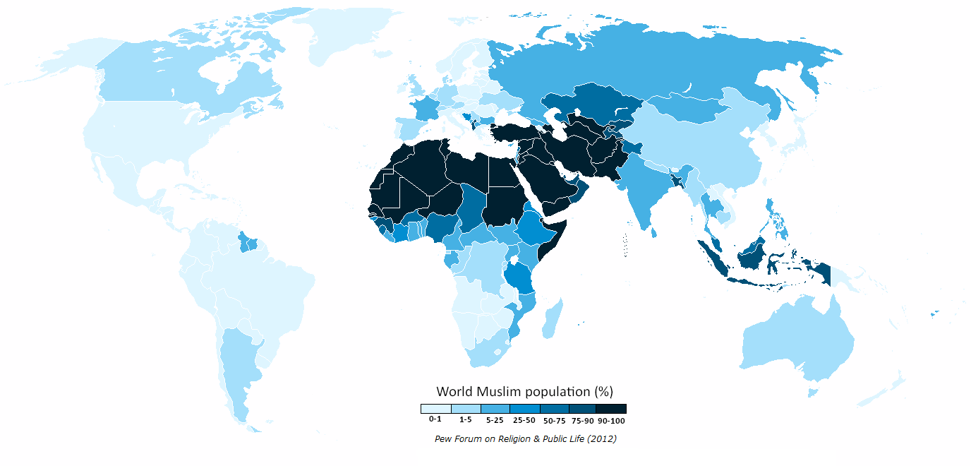 The Muslim population of the world map by percentage of each country, according to the Pew Forum 2009 report on world Muslim populations. The Pew Forum in December 2012 has now released a new estimate of the world's religious population by country for the year 2010 including Muslims.